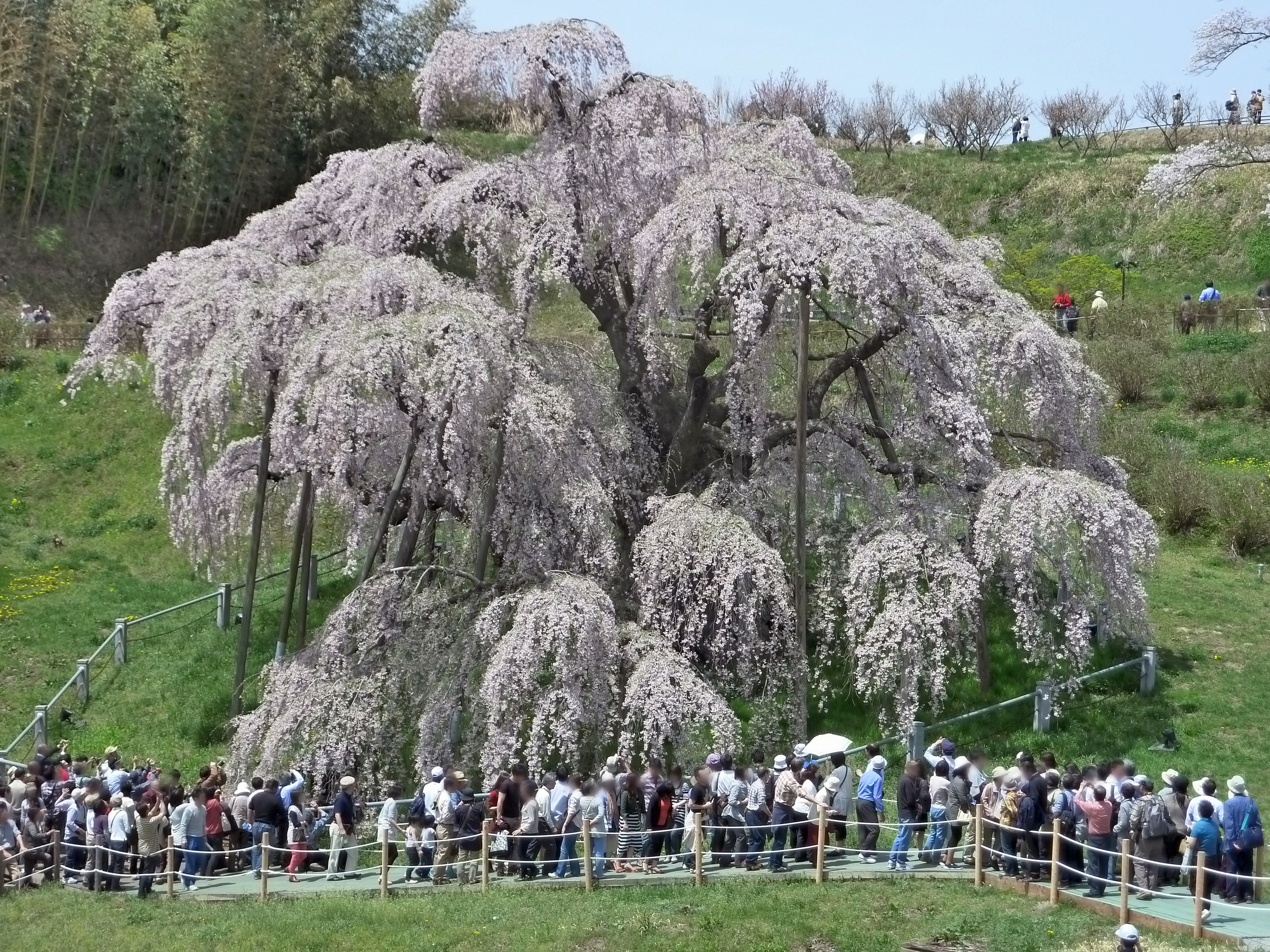 TakiZakura in Miharu,Fukushima,Japan,looks like a big waterfall.